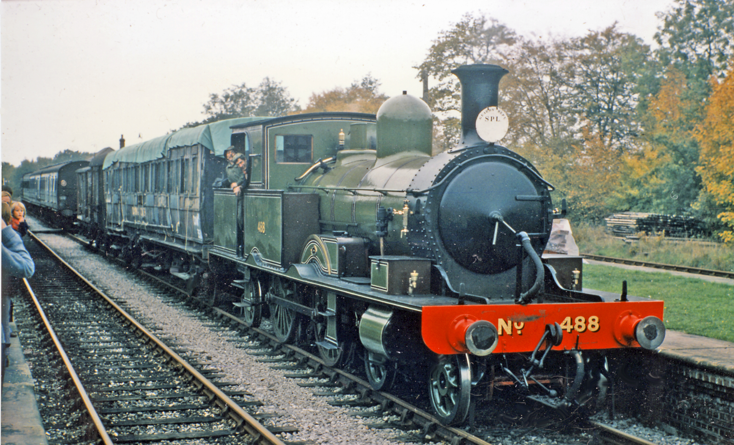 Ex-LSWR Adams 4-4-2T No. 488 on Bluebell Railway at Sheffield Park. View southward, towards Lewes until the ex-LB&SC East Grinstead - Lewes line was closed in March 1958, later the southern terminus of the Bluebell line after its opening from Horsted Keynes in 1960. No. 488 was acquired by the Bluebell Railway soon after its withdrawal as BR No. 30583 in 7/61. (See SY0991 : EX-LSW 4-4-2T on Rail Tour at Tipton St Johns for the locomotive's history). The coaching stock looks decidedly odd - with a large tarpaulin over the leading coach, unlikely to be a train in service. [?].